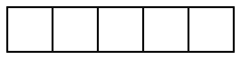 Skeletal structure of [5]Ladderane